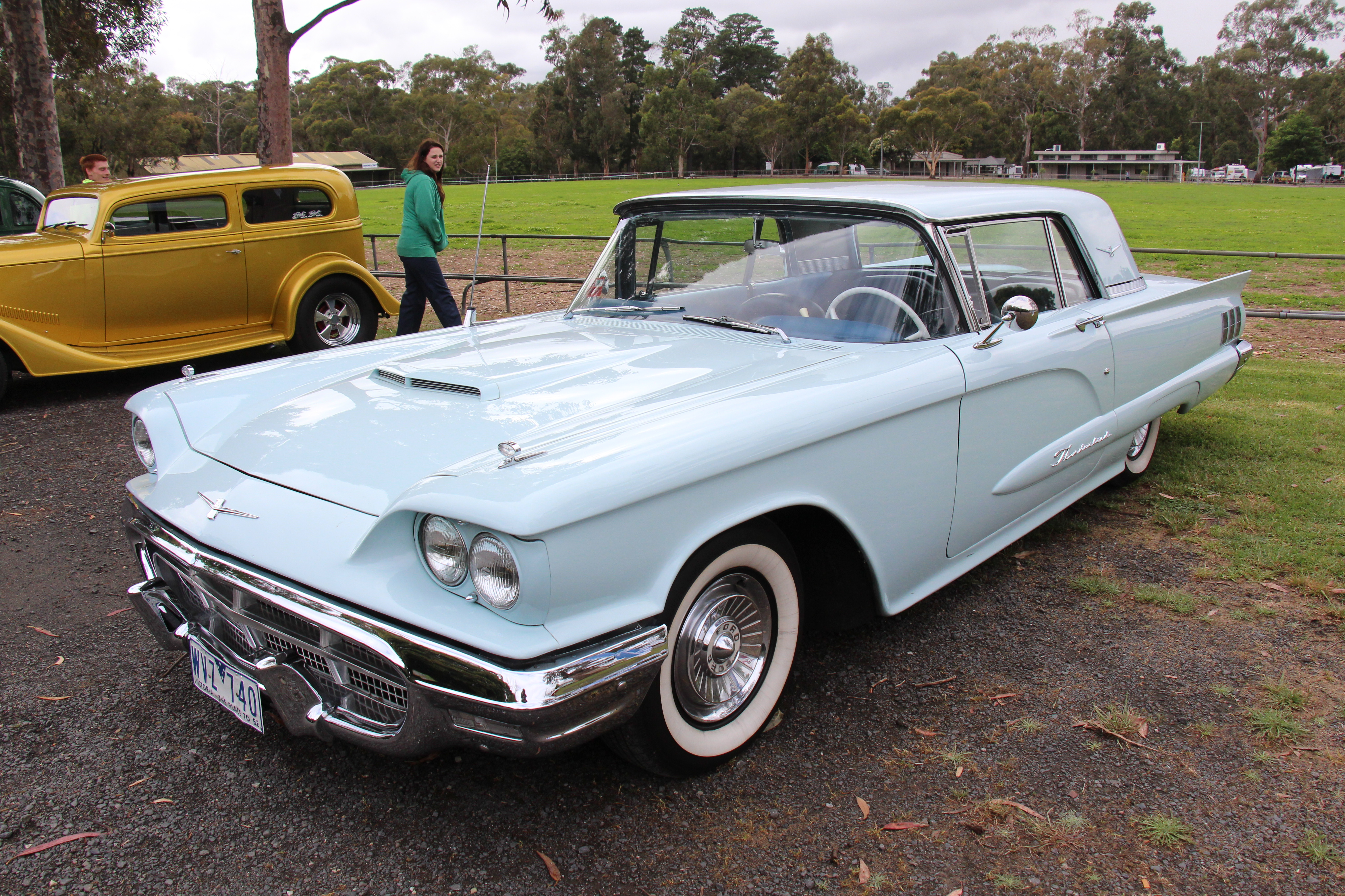 Skymist Blue. The second generation Thunderbirds were built from 1958-60, nicknamed the 'Square Bird', they had a new angular profile with quad headlights, they were now bigger and heavier, two feet longer than the first generation two seat roadster. The new Thunderbird was now a four seater, it was very low and now available as a fixed-roof pillarless hardtop or a convertible. To accommodate the higher transmission tunnel that was required in such a low car, Ford used it as a styling feature, building in a full-length center console featuring ashtrays, switches etc. New FE engines were also introduced in 1958. For 1960, the grille was revised again, now with an egg crate background with solid cross bars in front, behind the tail lights got an egg crate look too, just 'Thunderbird' on the door now, but sergeant stripes at the rear of the rear quarter, a sunroof was now an option. Engines; 235hp 352 cu in FE V8 (G Code), 300hp 352 cu in FE V8 (Y Code) and 350hp 430 cu in MEL V8 (J Code)